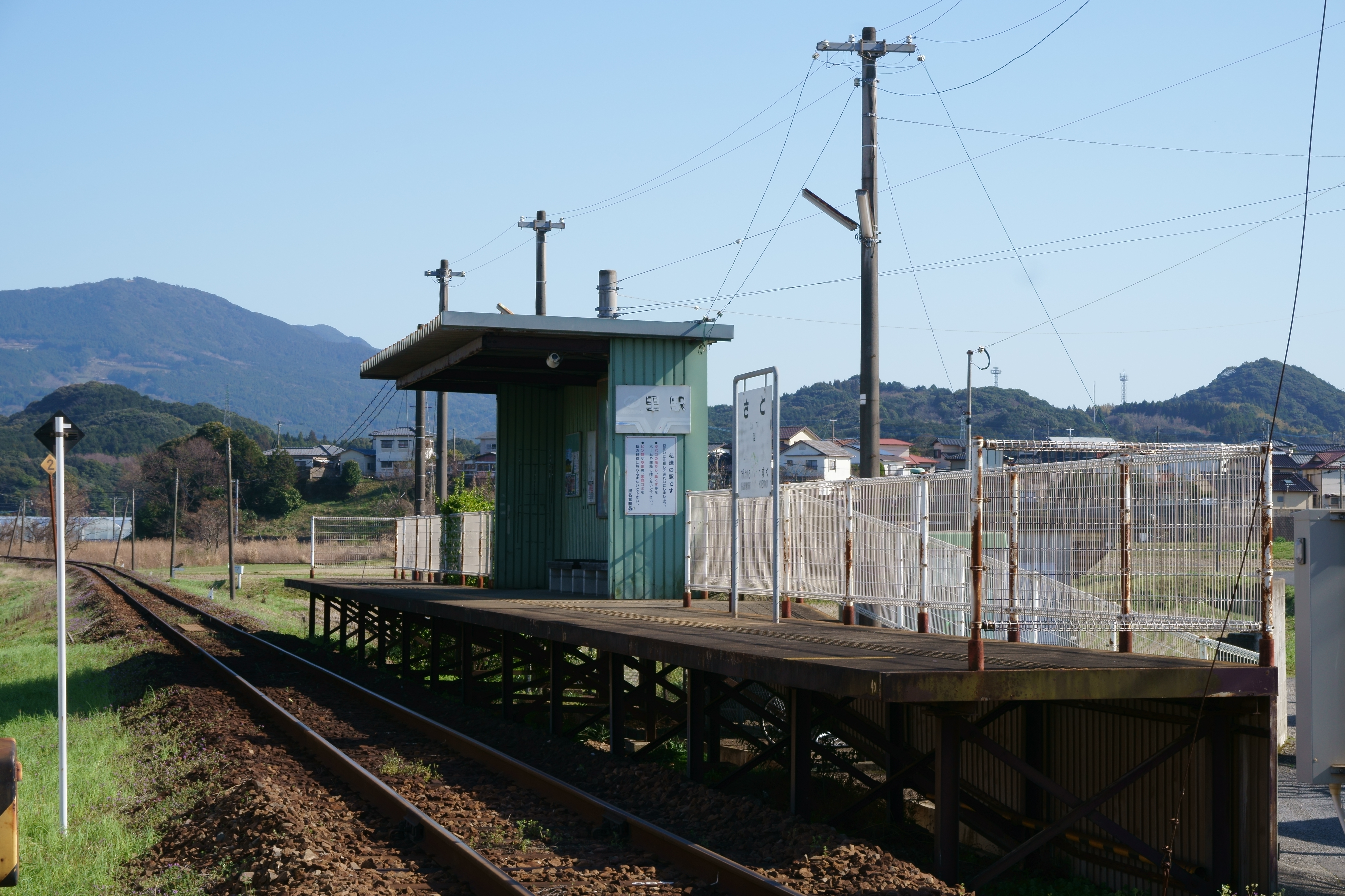 Sato Station in Nishikyushū Line of Matsuura Railway.